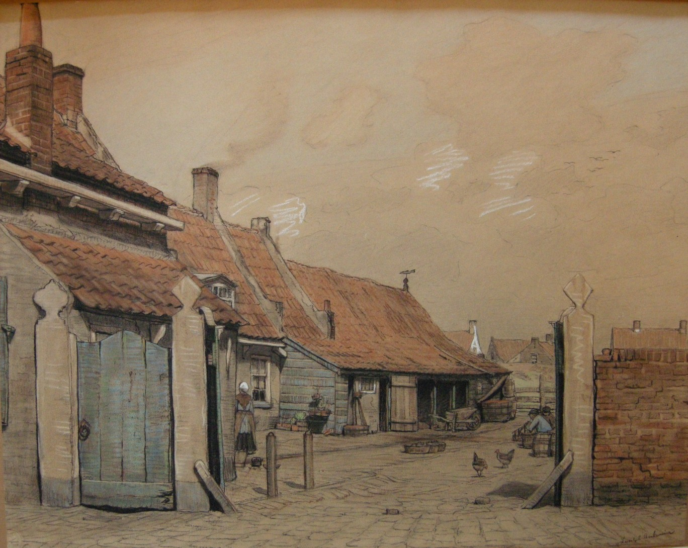 Smokehouse at Noordwijk